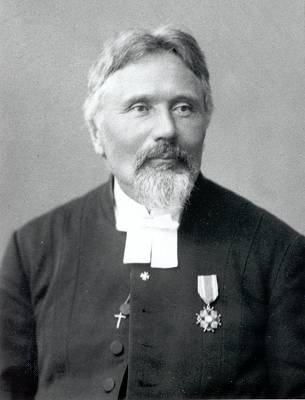 Finnish priest Gustaf Oskar Schöneman (1839–1894)